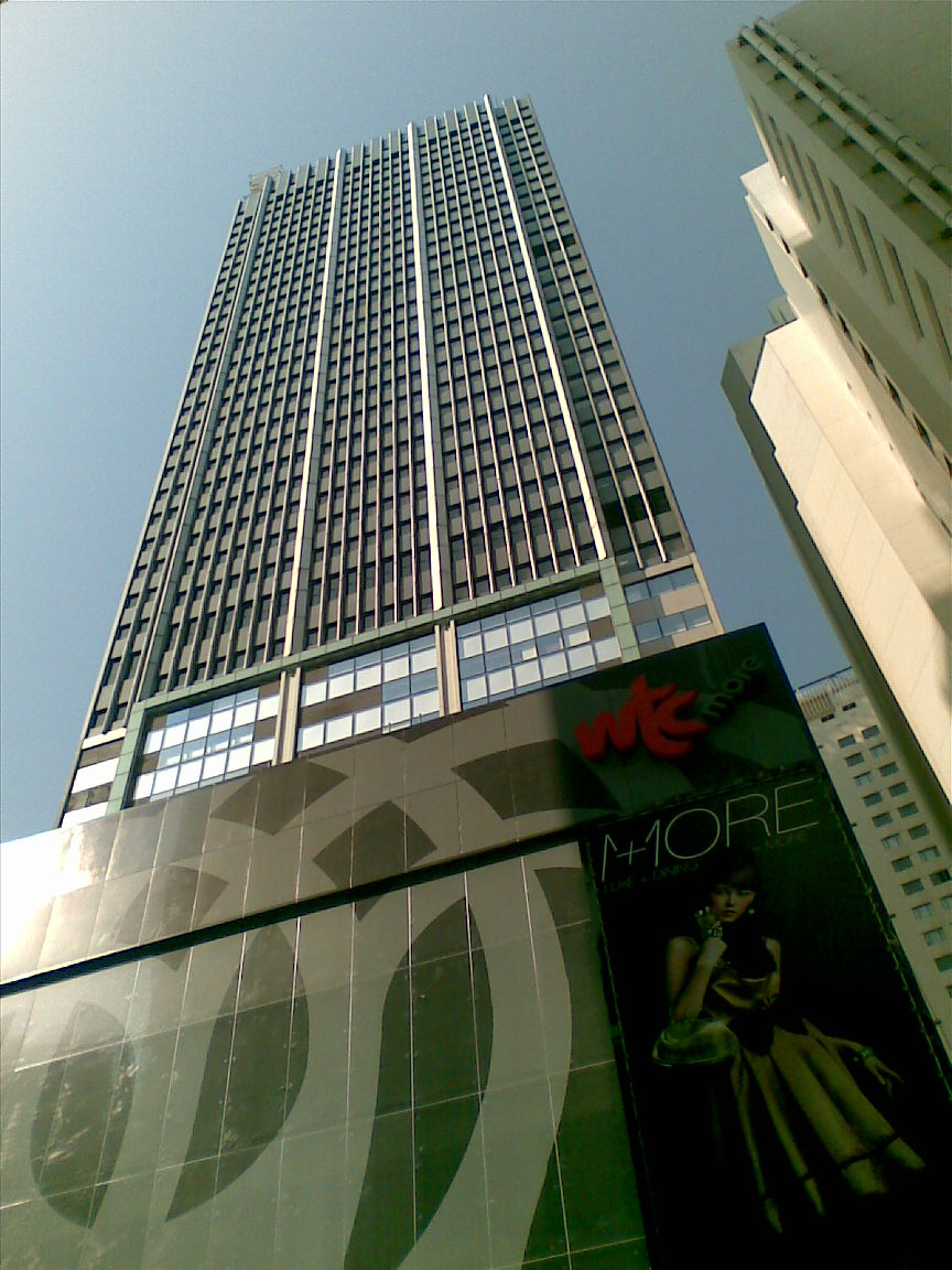 Photo of World Trade Centre